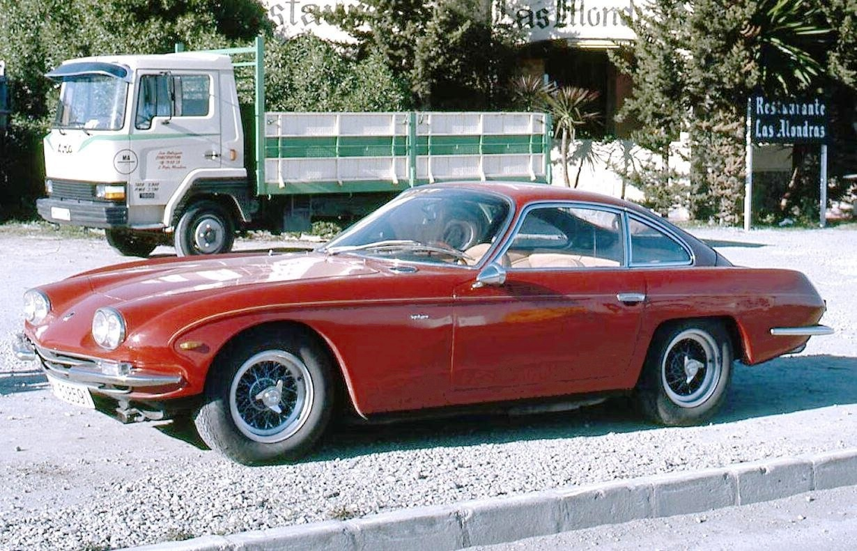 Lamborghini 400 GT 2+2 in Tenerife